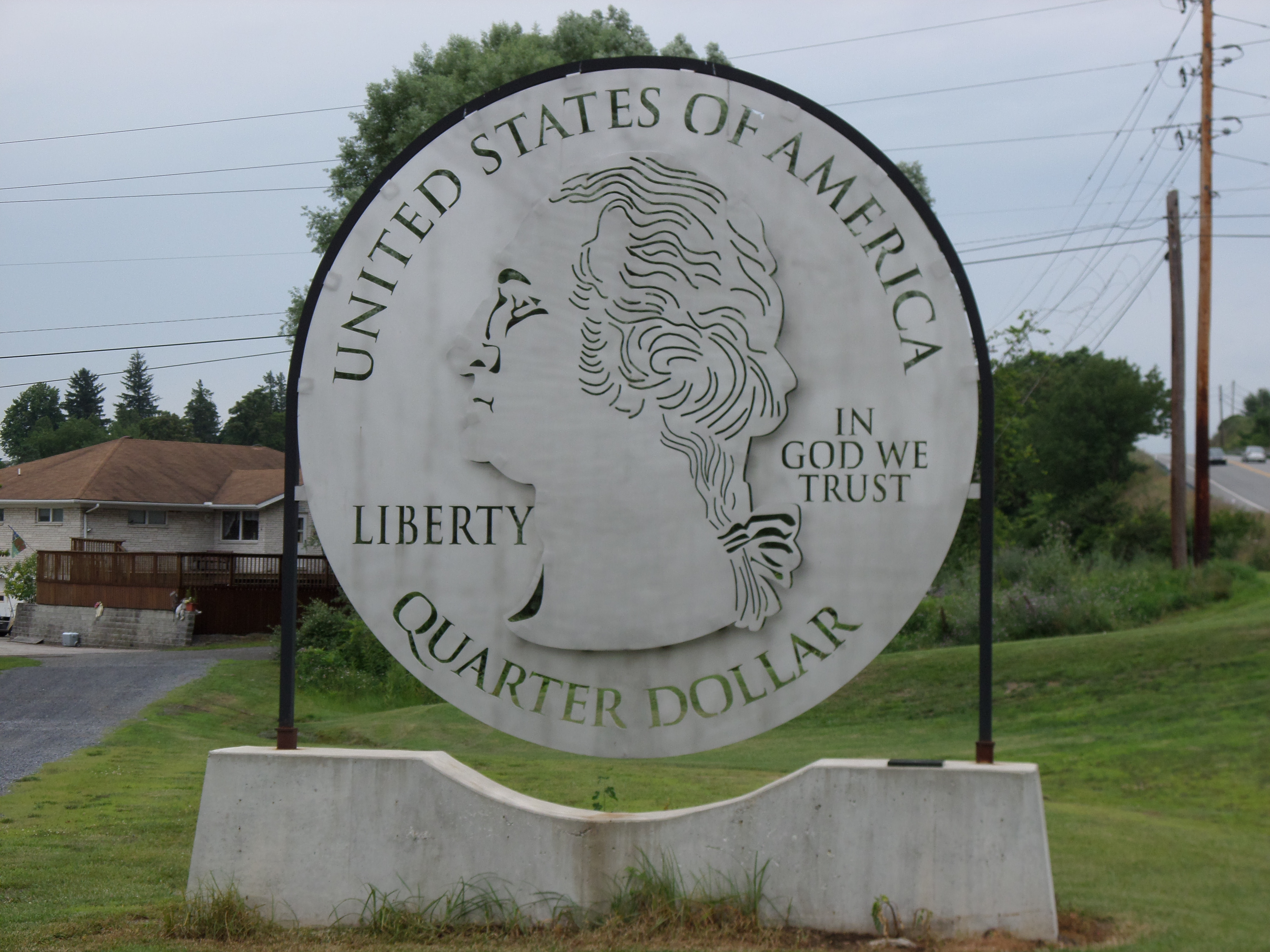 oversize quarter.